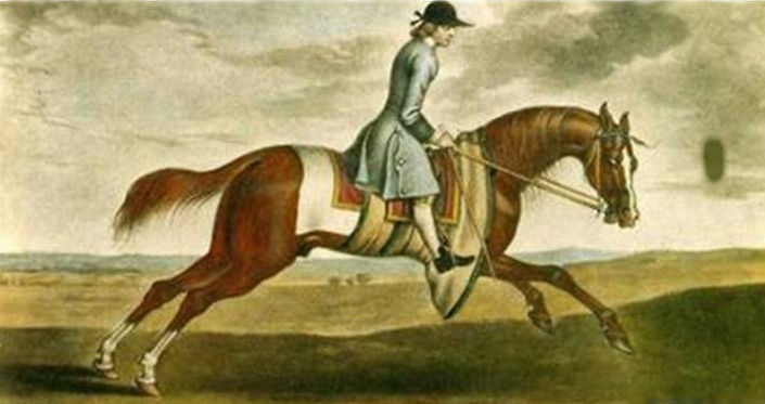 Partner (also known as Croft's Partner or Old Partner), a good Thoroughbred racehorse, and a Leading sire in Great Britain and Ireland four times.